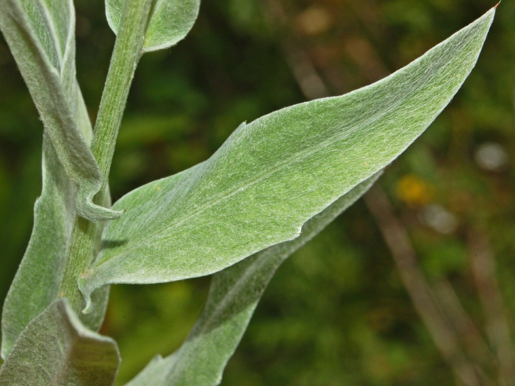 Centaurea uniflora - Parque des Ecrins, France